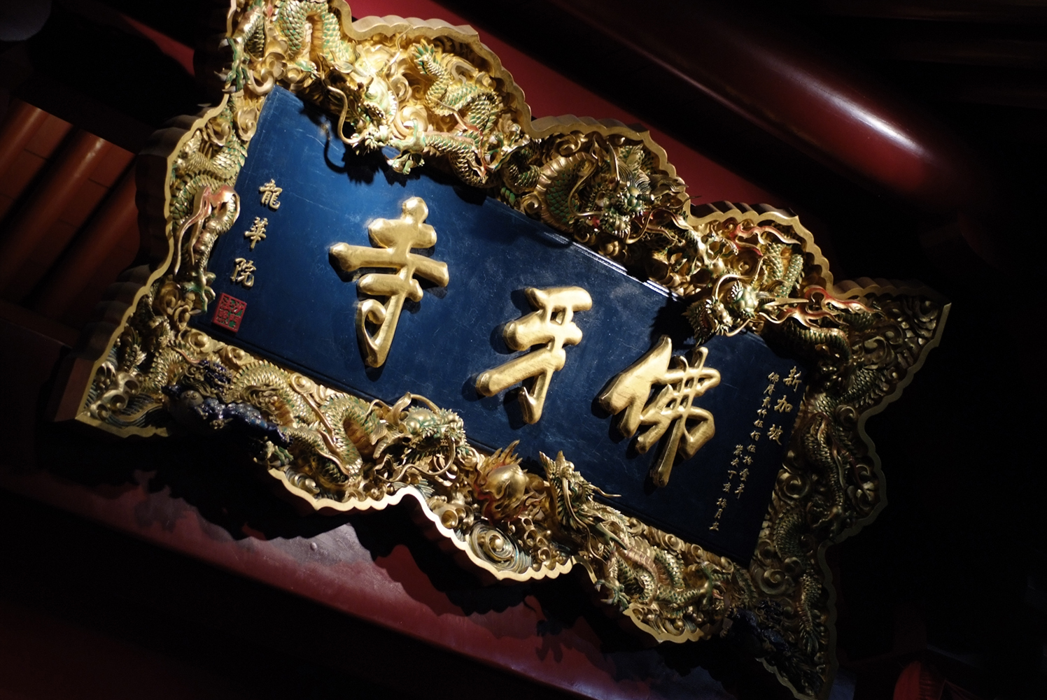 The inconspicuous handcrafted entrance sign of the Buddha Tooth Relic Temple in Chinatown, Singapore. (No processing or HDR. Just a tinge of light sharpening. Nikkor 60mm macro lens with the Fuji S5Pro. Shot with available light without flash on ISO800 at f2.8. Surprisingly no noise detected with the naked eye.)